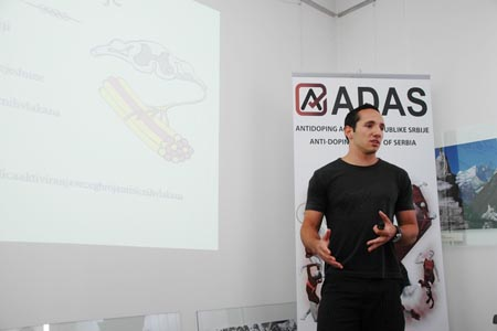 Darko Sarovic holding a lecture for the Anti-Doping Agency of Serbia on the topic "strength training for explosiveness"